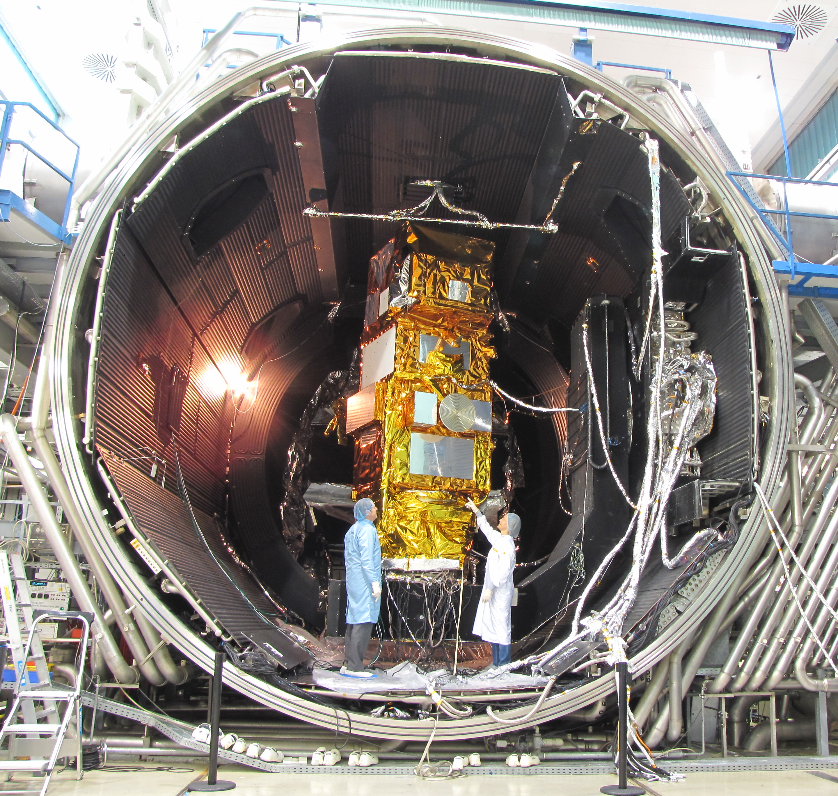 Photo of the Sentinel-2A spacecraft in the thermal vacuum chamber testing at IAGB's facilities